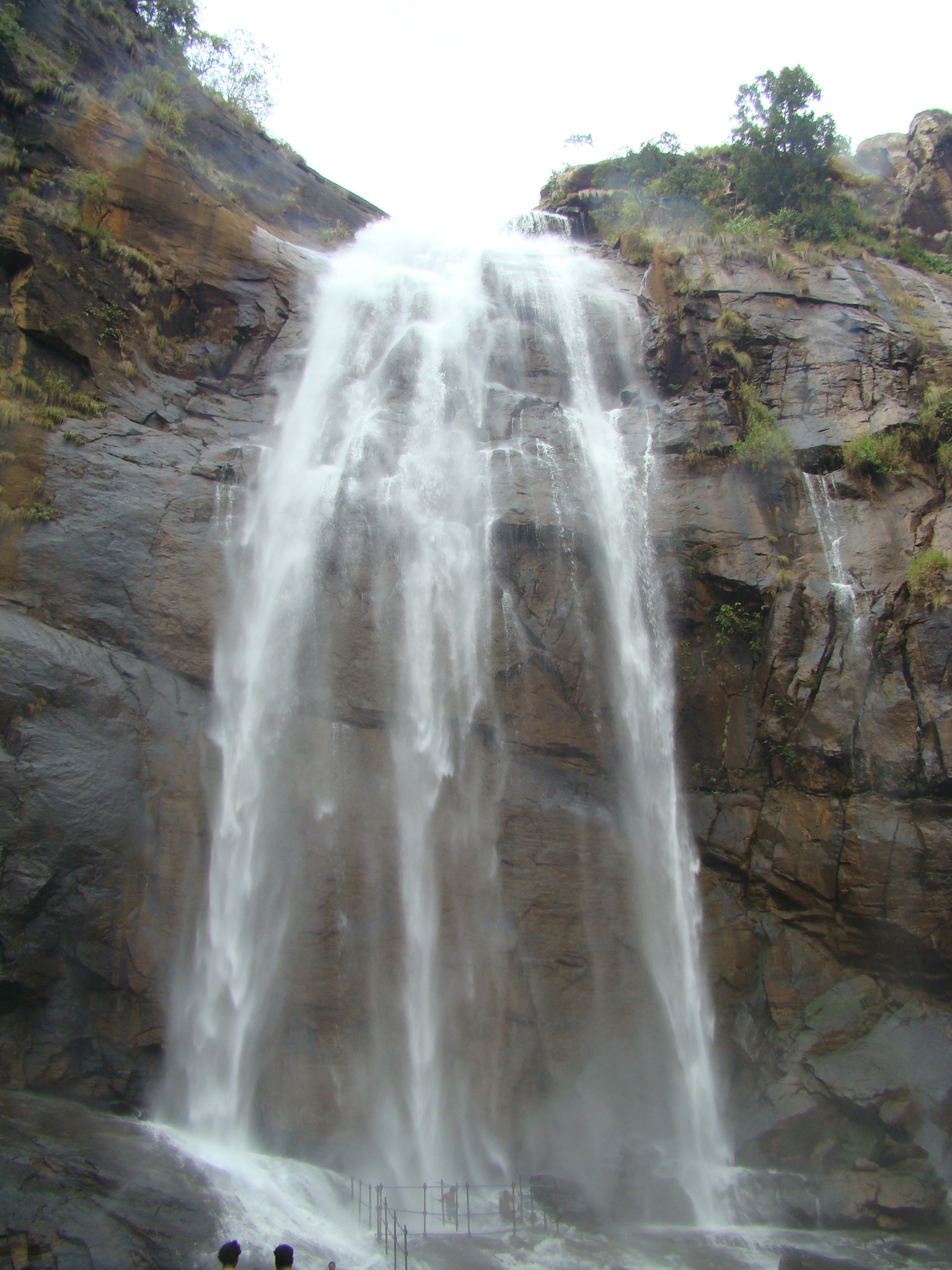 Agaya Gangai Waterfalls at Kolli Hills (Kollimalai) in Eastern Ghats.